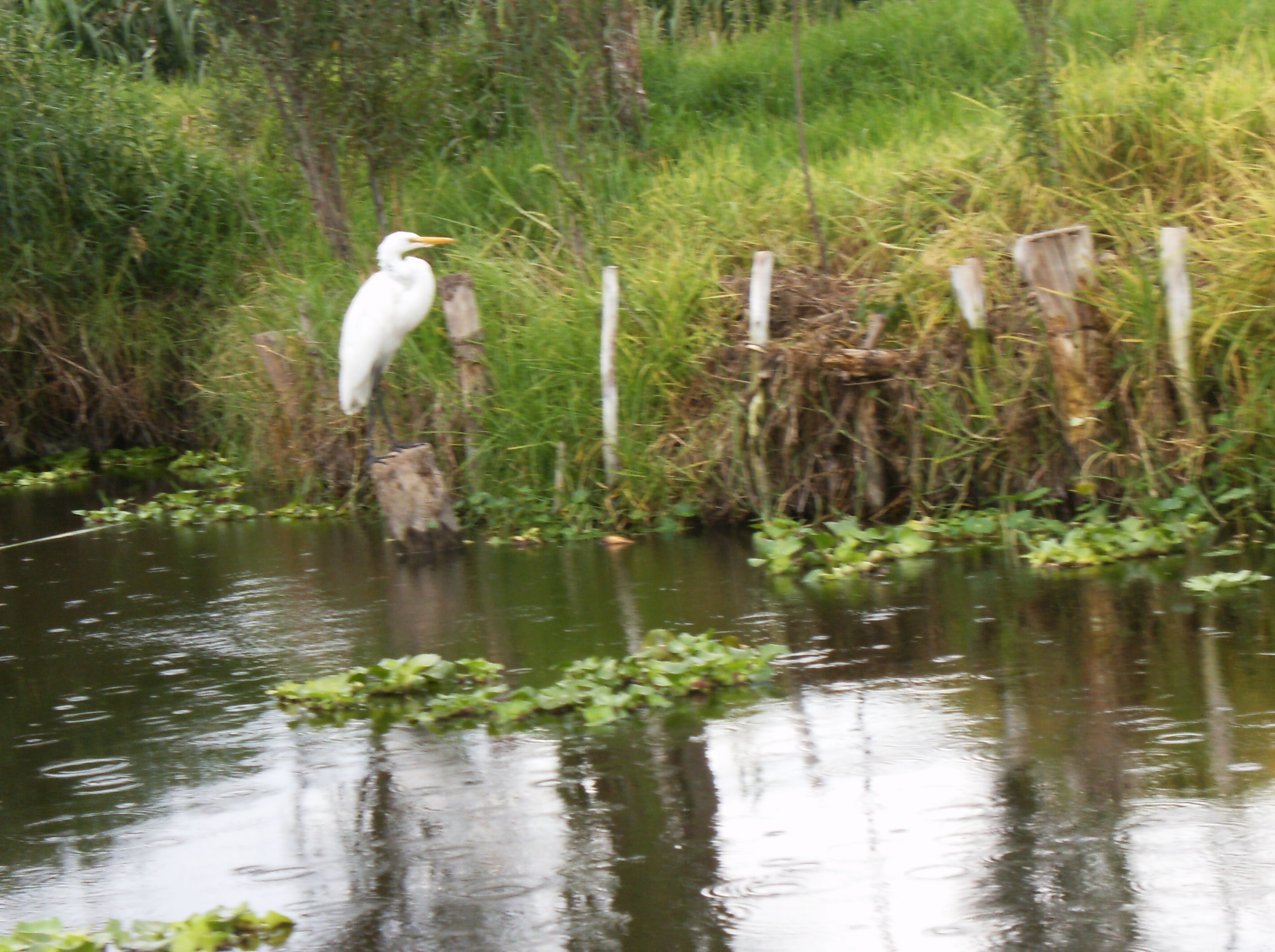 Wading crane — canals of Xochimilco.